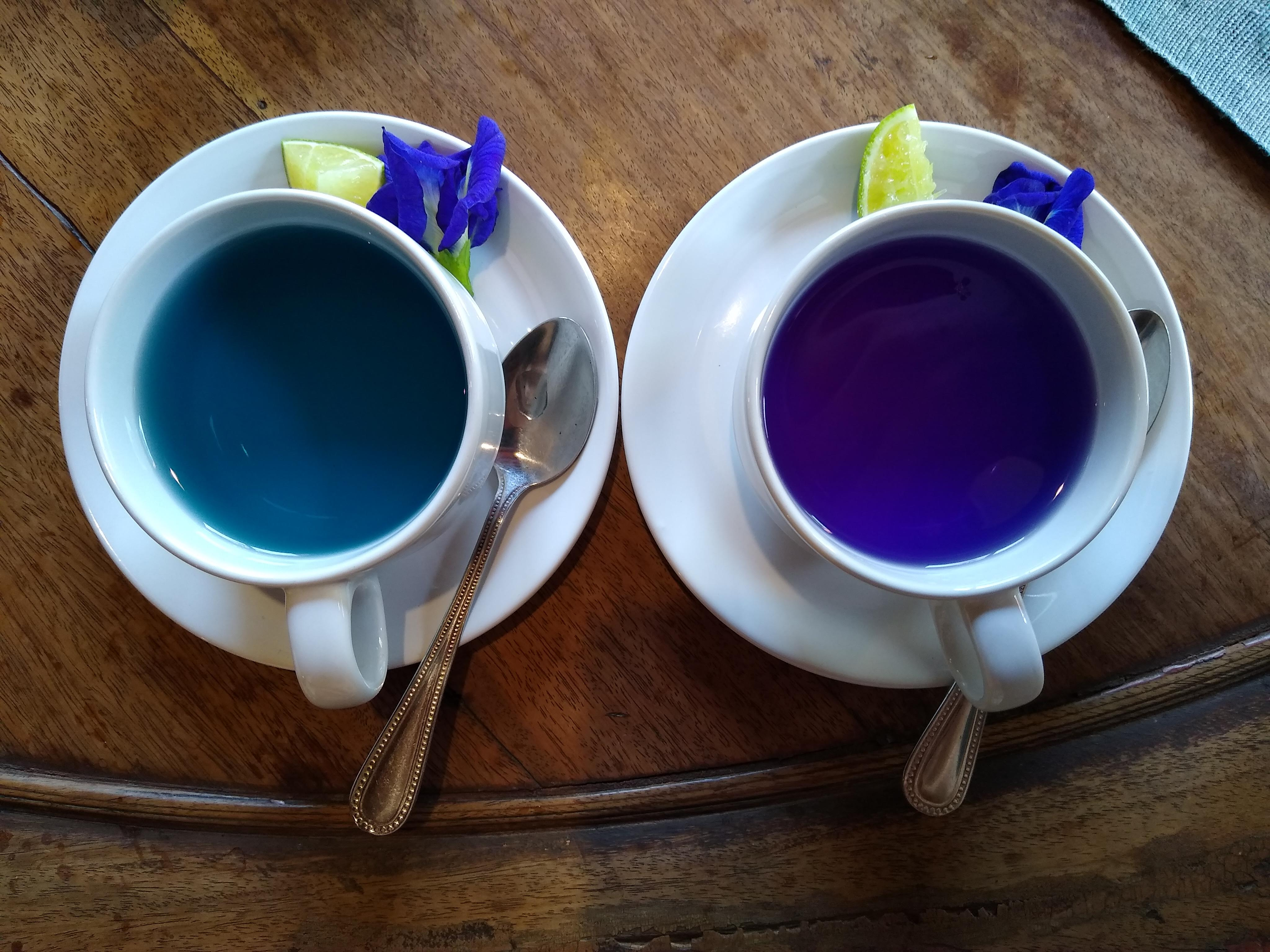 Two cup of butterfly-pea flower tea served at the Lao Textile Museum in Vientiane. When served they were the same color, but the lower cup has had a small amount of lime juice added, changing its color from blue to purple.